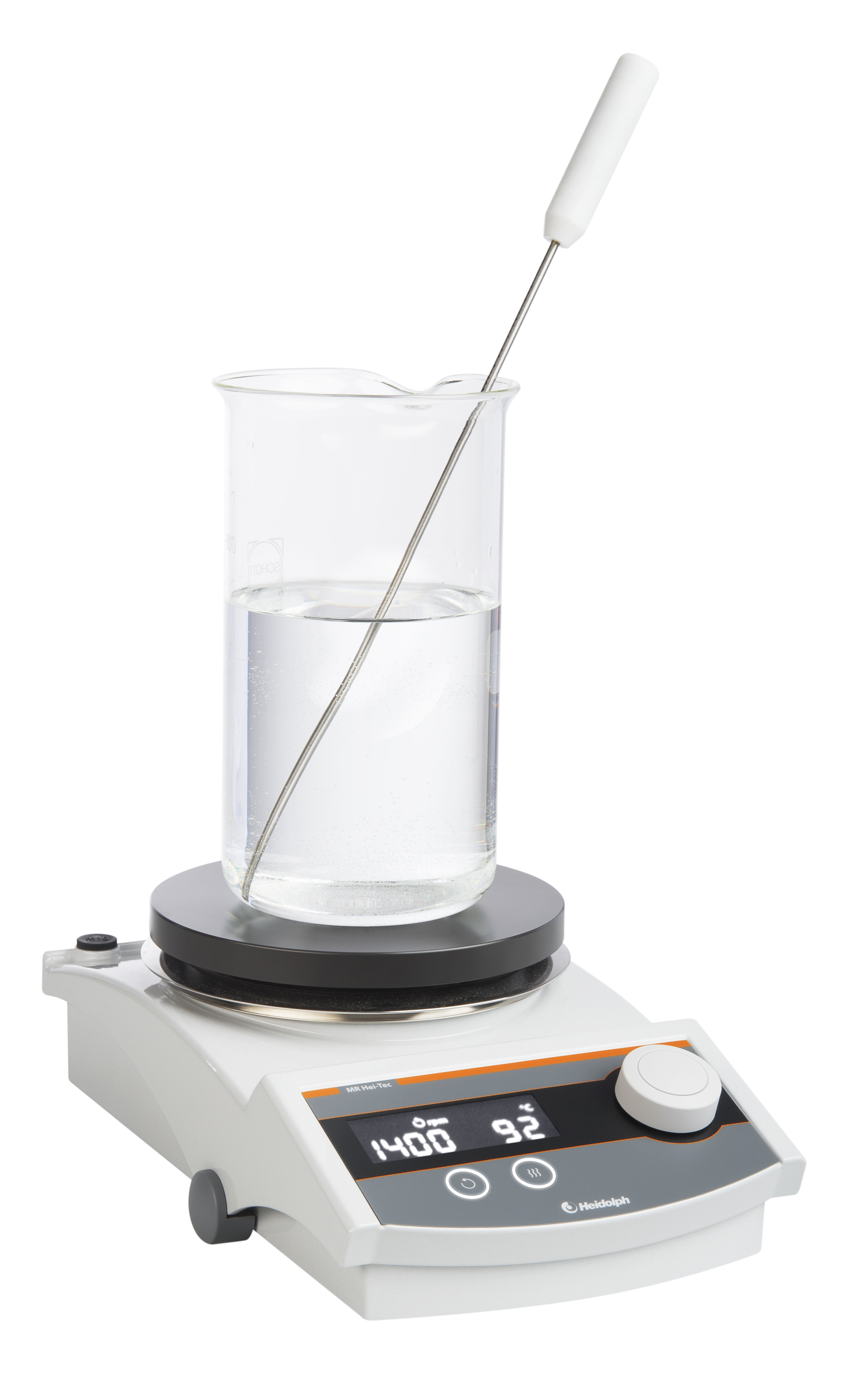 Hotplate with temperature controller